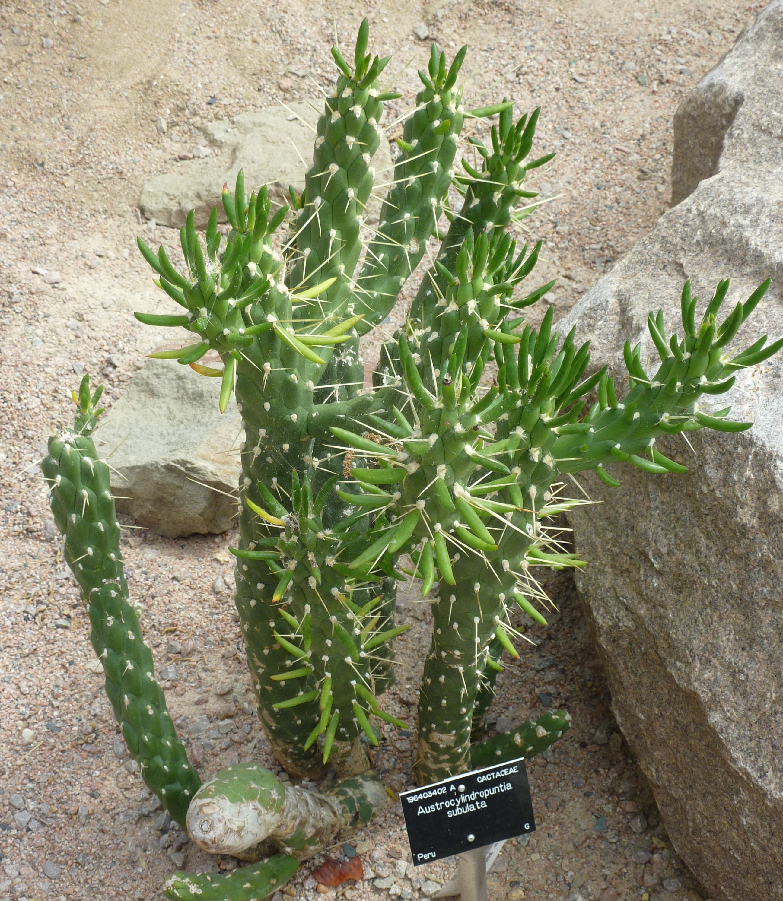 Taken in the Cambridge University Botanic Garden